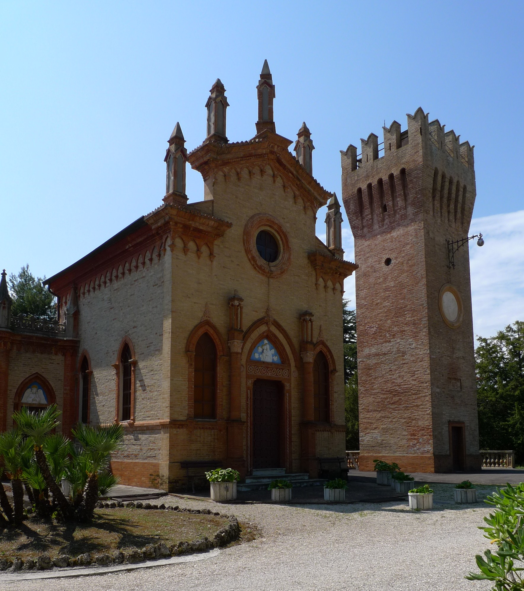 Villa Conti Chapel in Civitanova Marche